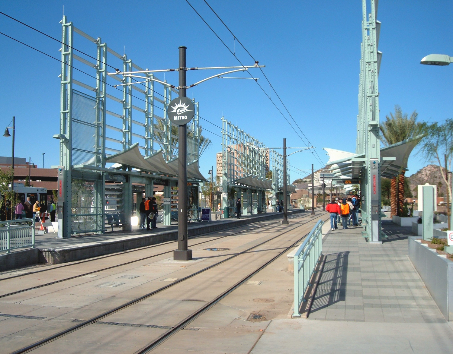 Photograph of the ASU Tempe Campus (or University at Rural) Station of METRO Light Rail that serves the Phoenix area, Arizona, USA. This photograph was taken during the light rail's grand opening celebration on December 27, 2008.